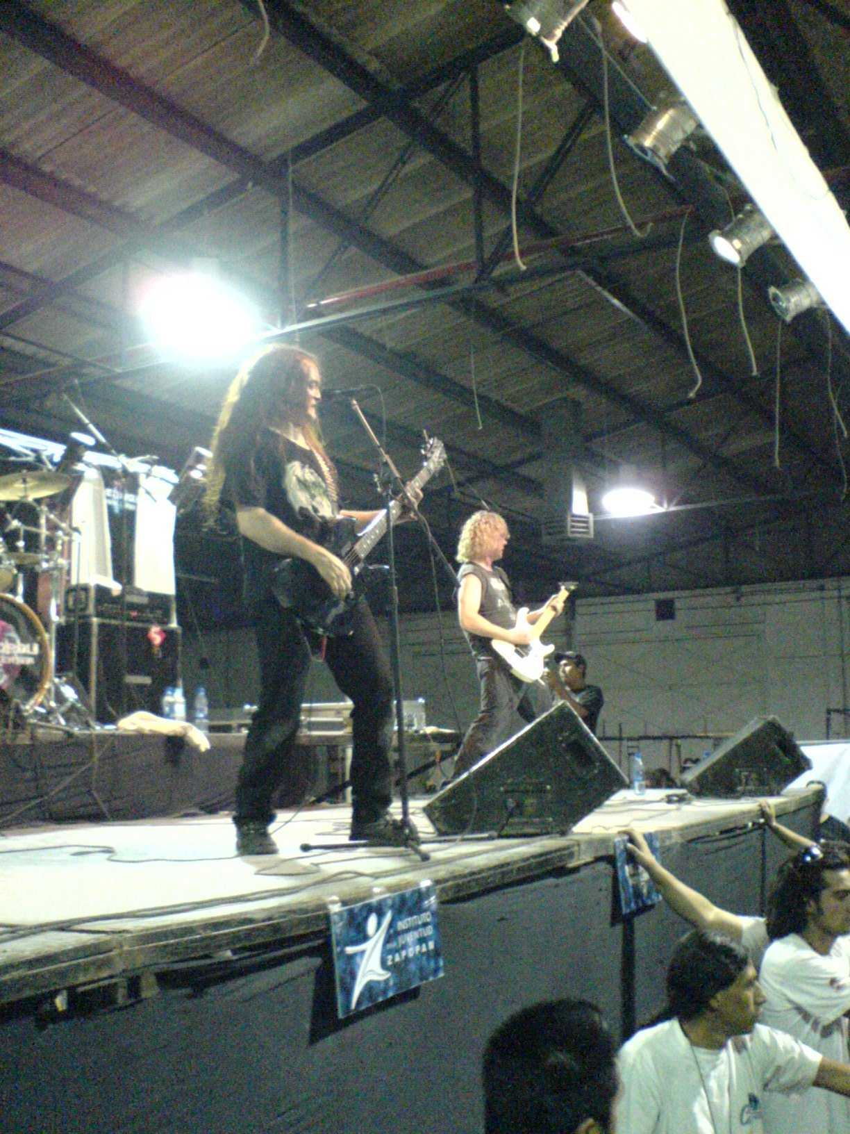 Incantation performing at Mortal Fest in Mexico in 2008.